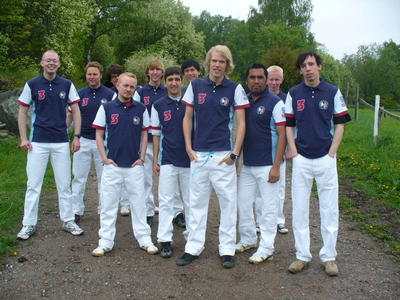 Swedish reality TV series/football team FCZ, dressed for horse polo.